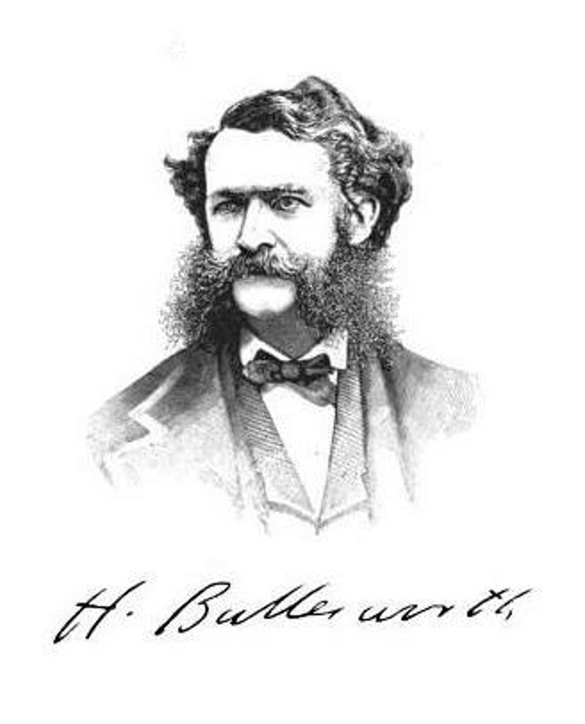 Hezekiah Butterworth (1839–1905) was an American writer of books for young people, and a poet.[1]